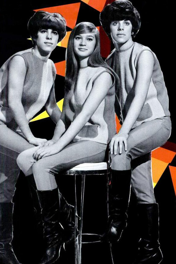 Photo of the Shangri-Las in 1964. This was when the group became a trio for a while.